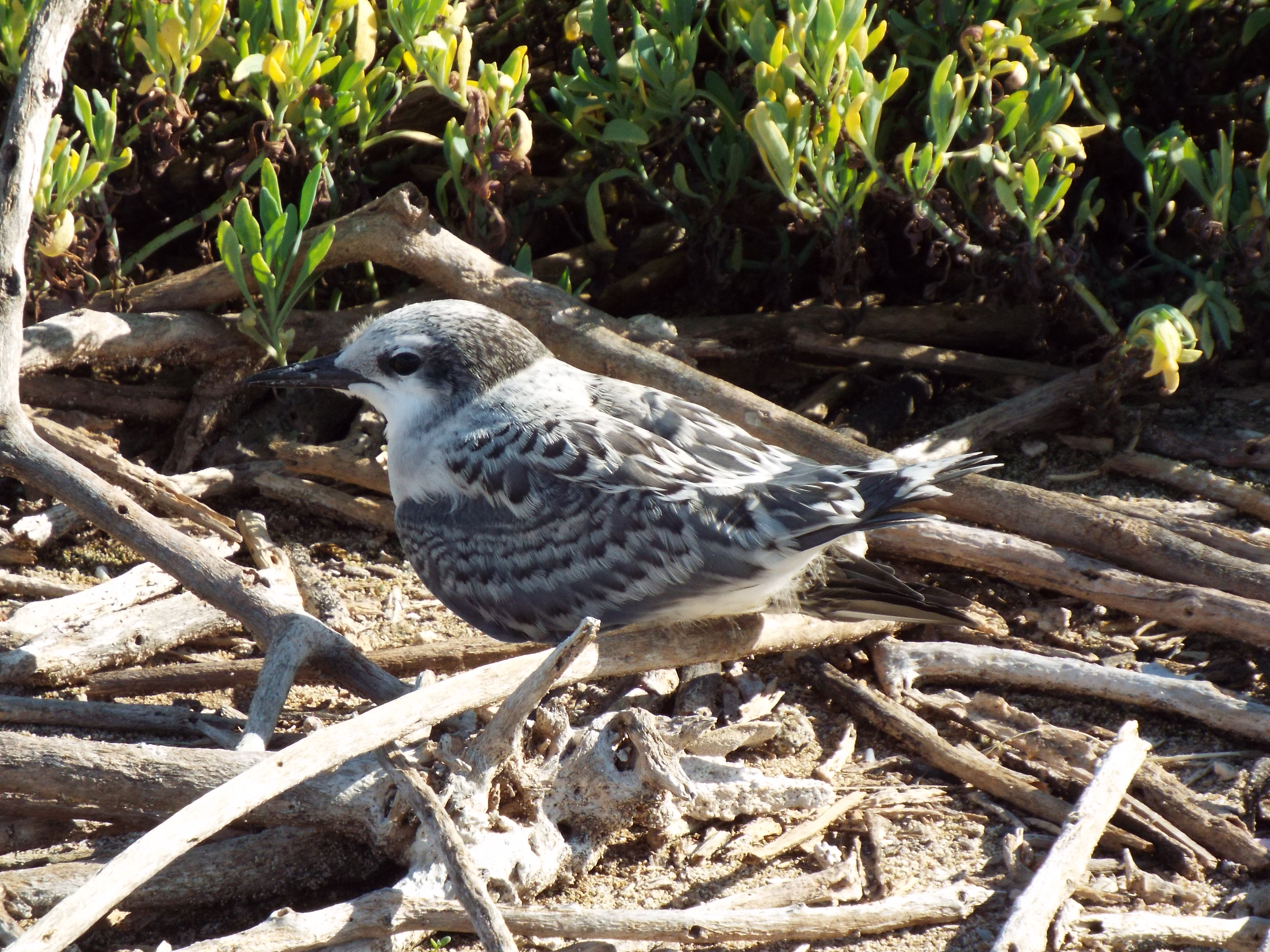 Juvenile Spectacled Tern at Lake, Laysan, Hawaii. #130911-0976 Image Use Policy